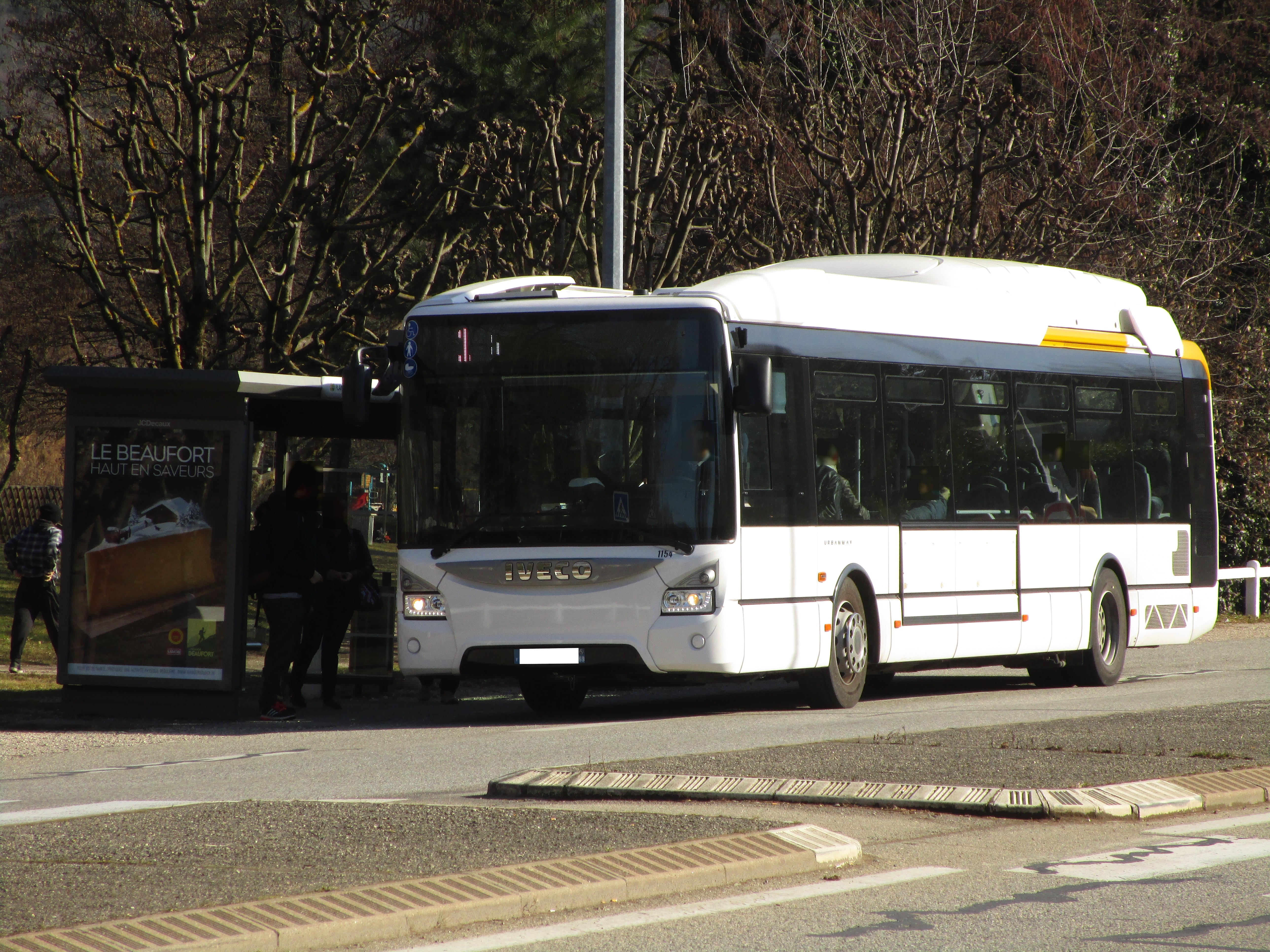 A bus Iveco Urbanway 12 Hybrid (N°1154) under trials on the bus network of the Stac, on the line 1 (Les Frasses, Saint-Jeoire-Prieuré↔Collège George Sand, La Motte-Servolex), at the call Plan d’eau in Challes-les-Eaux on February 20, 2017.